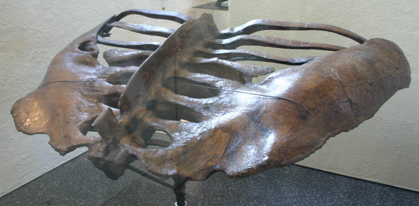 Pelvis of Platypelta coombsi holotype AMNH 5337 (formerly assigned to Euoplocephalus tutus).